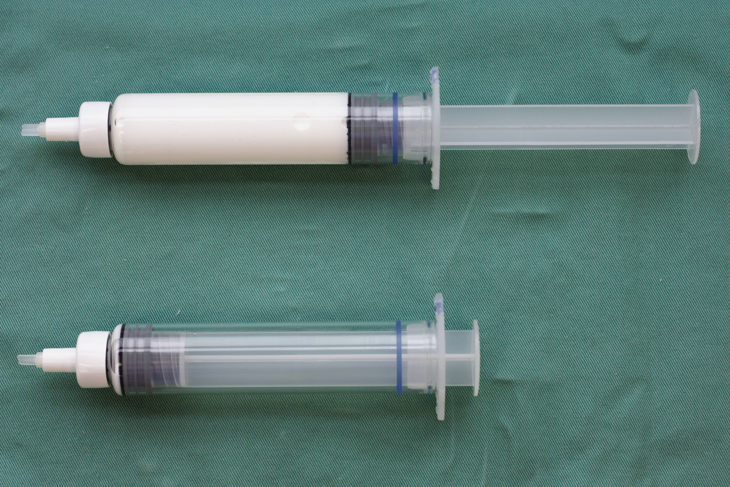 ampoule prefilled with propofol